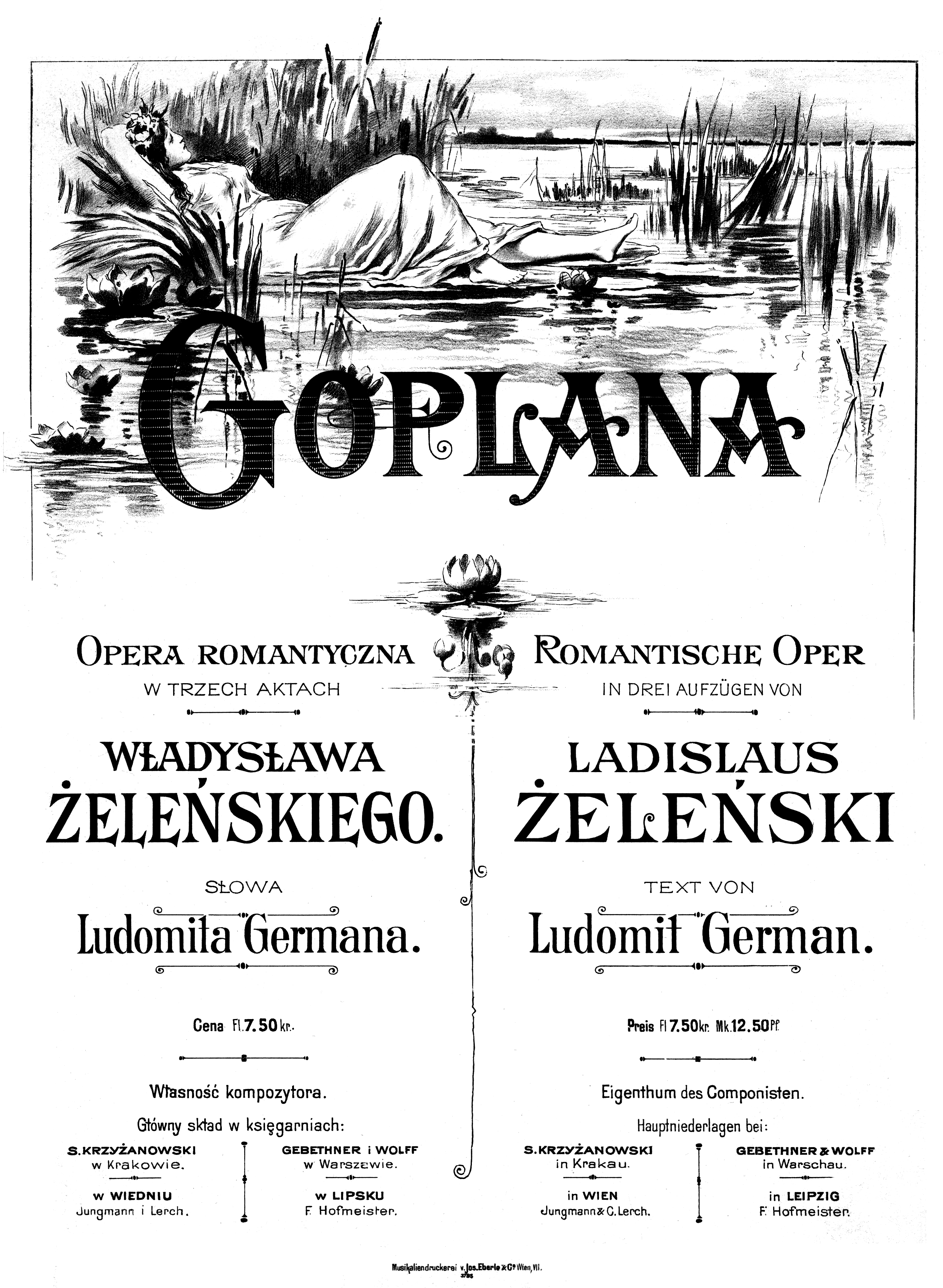 Władysław Żeleński - Goplana - title page of the piano score - 1897